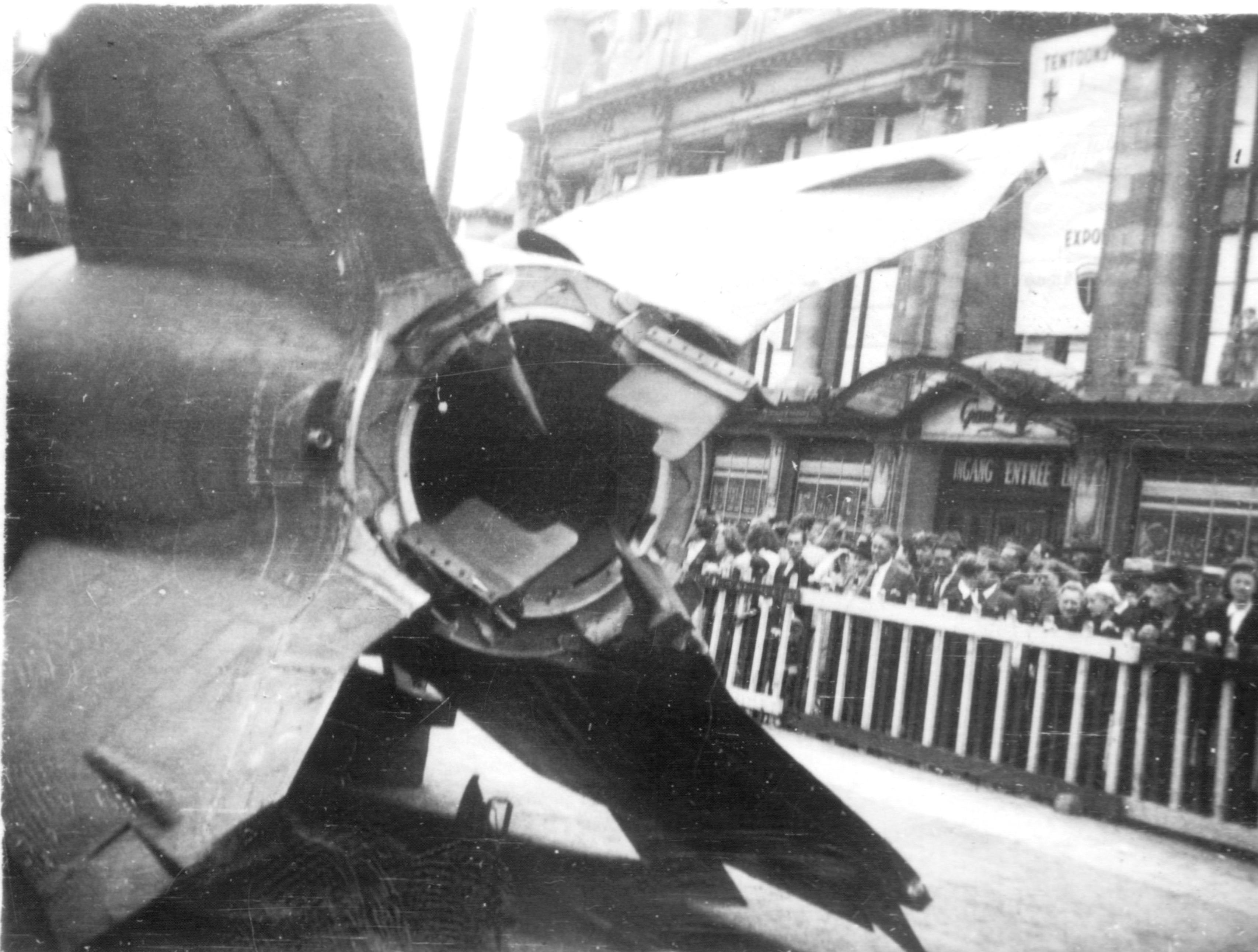 The V-2 rocket (German: Vergeltungswaffe 2) was the first ballistic missile and first man-made object to achieve sub-orbital spaceflight, the progenitor of all modern rockets including the Saturn V moon rocket. Over 3,000 V-2s were launched as military rockets by the German Wehrmacht against Allied targets in World War II, resulting in the death of an estimated 7,250 military personnel and civilians. One of the main targets was the port of Antwerp, counting 1300 hits. The most infamous hit was on Cinema Rex in the heart of town. Almost all the capacity audience was killed. This V-2 is exhibited on the Groenplaats in Antwerp (1945). You can clearly see the exhaust with its directional vanes. The photo was taken by my grandfather Jan B.H.A. Vervloedt (1945) and is now in the family archives.